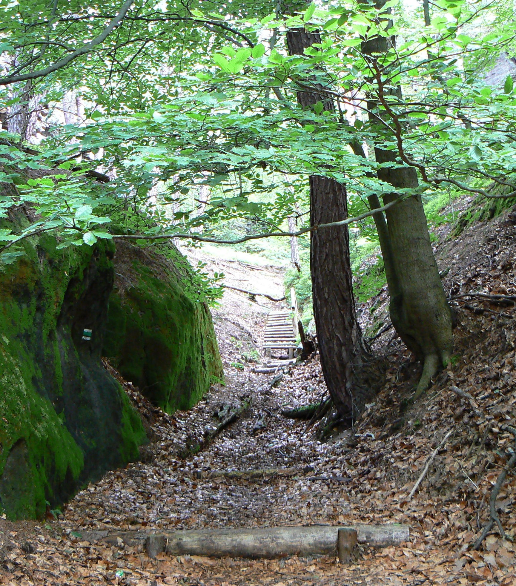 Steps towards the Čap in landscape park Kokořínsko, Česká Lípa District